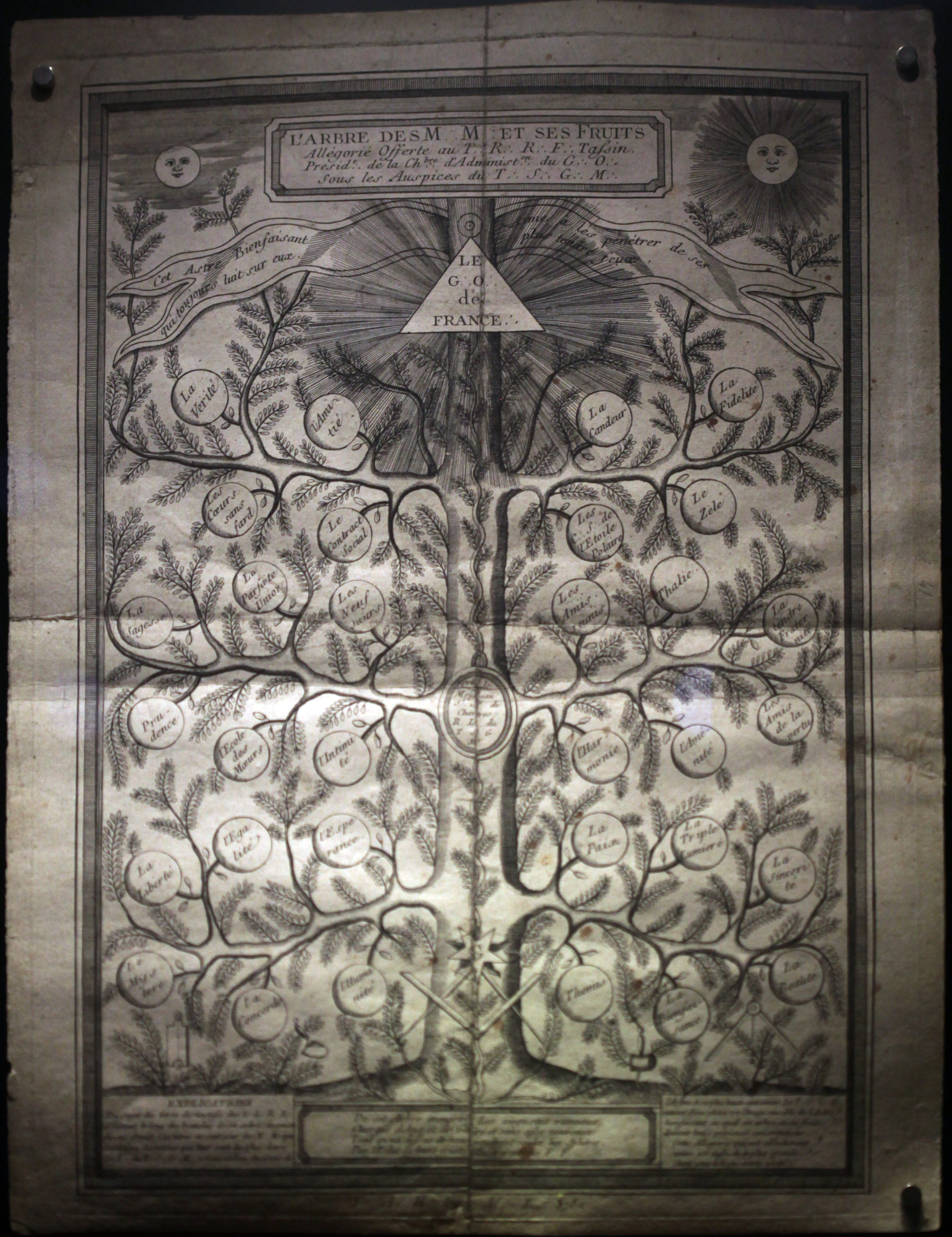 Allegory of the Grand Orient de France as the centre of French Masonic organisations